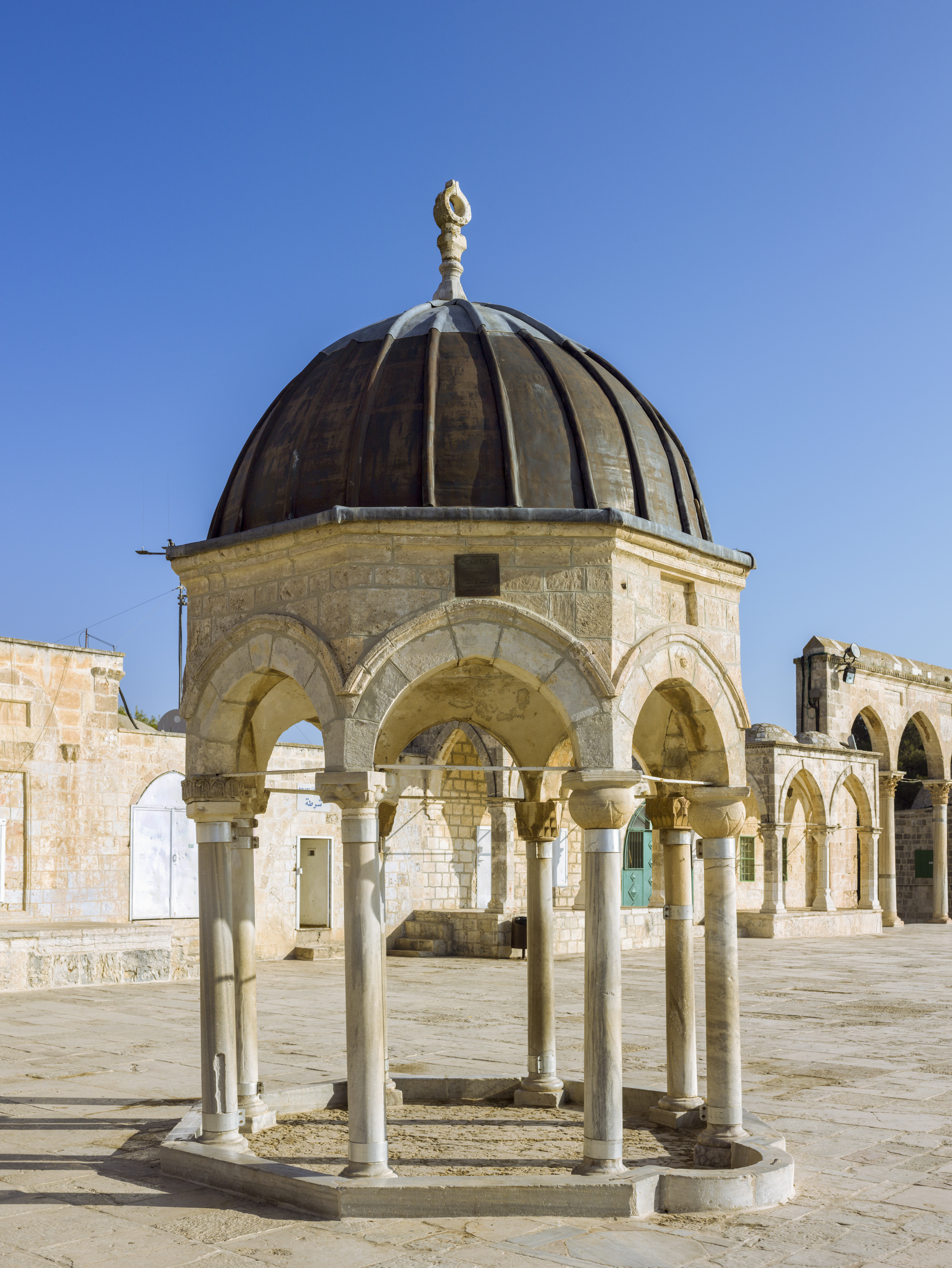 The Dome of the Tablets (aka Dome of the Spirits) was built over what was thought to have been the resting place of The Ark of the Covenant. It was later theorized that the location was actually beneath the Foundation Stone under the Dome of the Rock. Located on the Temple Mount in the Old City of Jerusalem.